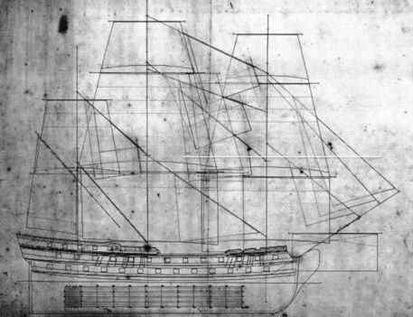 Original plans of the Printz Friederich, which sank in 1780